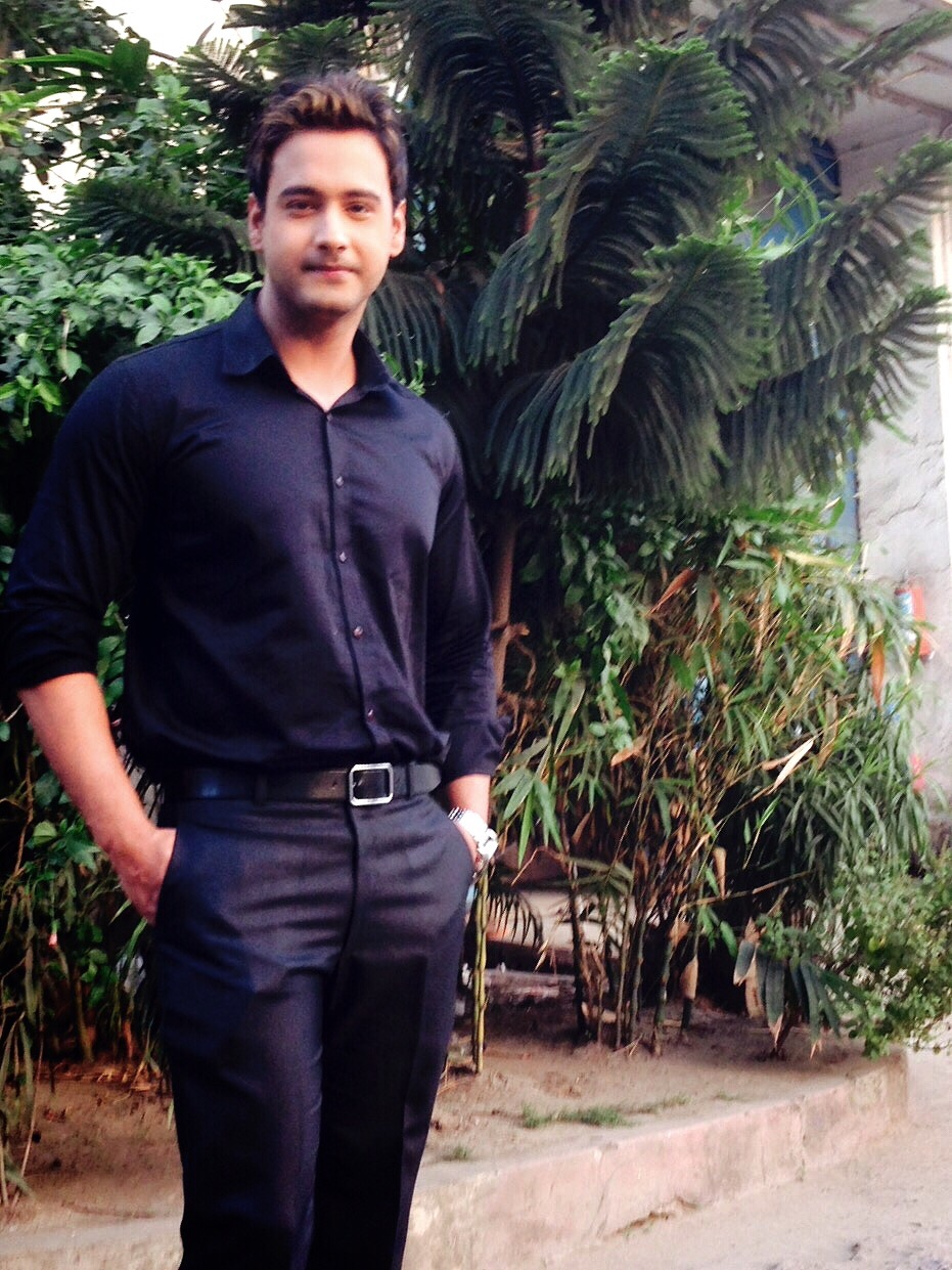 This image was shot at P51 Studio in Kolkata - Shooting location BSBN TV Series (OTRS permission ticket 2016070710015483)